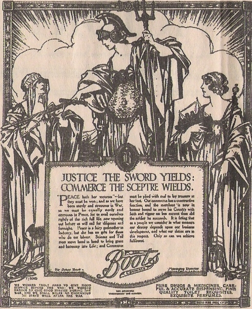 An old advertisement for the British pharmacy Boots.